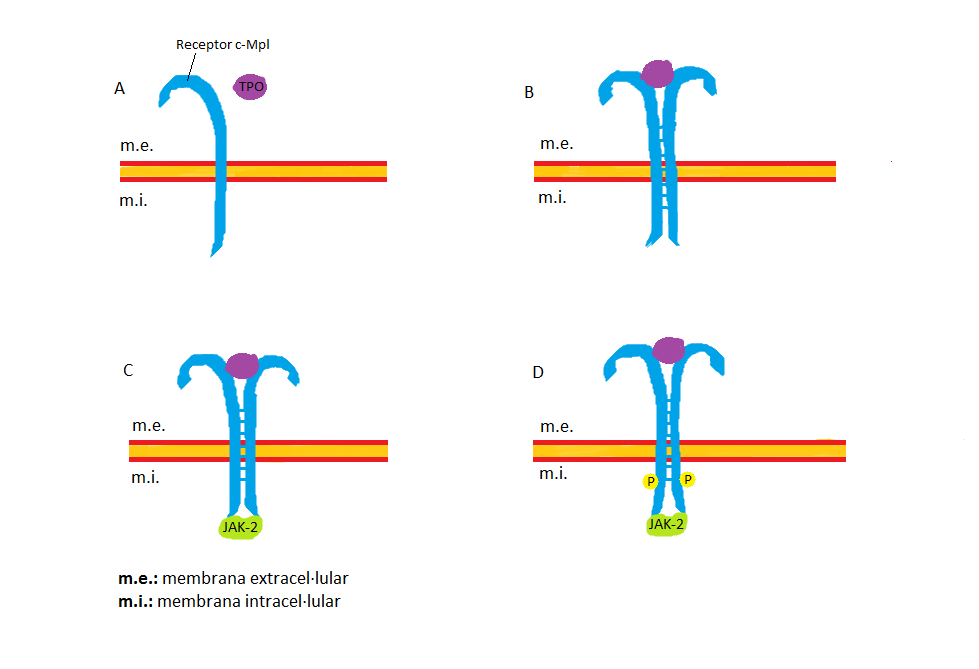 Thrombopoietin (TPO) binds to c-Mpl receptor